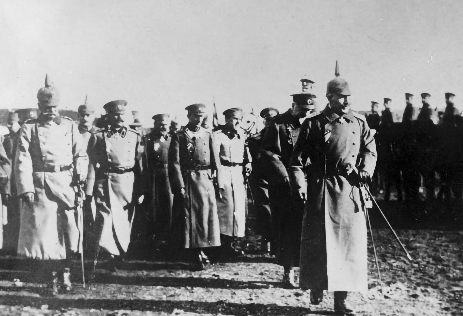 THE OCCUPATION OF SERBIA BY THE CENTRAL POWERS, 1915-1918 (Q 53090) Kaiser Wilhelm II, Tsar Ferdinand I of Bulgaria, Bulgarian Crown Prince Boris and Field Marshal August von Mackensen reviewing Bulgarian cavalry at Nis, 18 January 1916